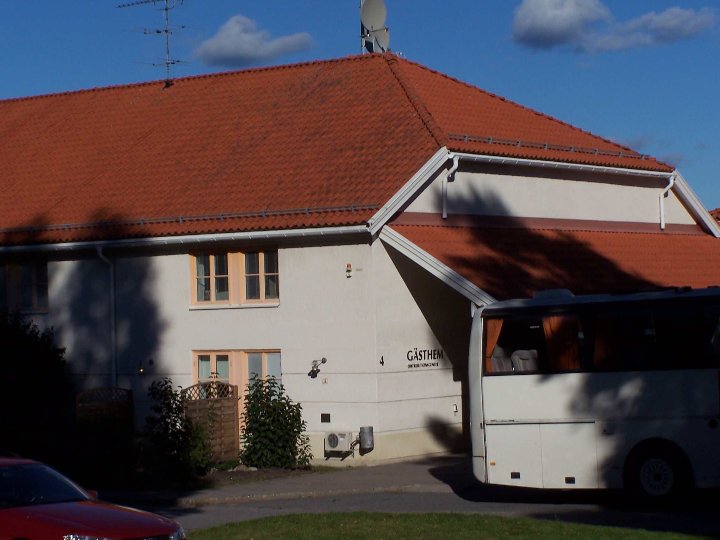 A guest house for the Stockholm Sweden Temple of The Church of Jesus Christ of Latter-day Saints, Västerhaninge, Sweden